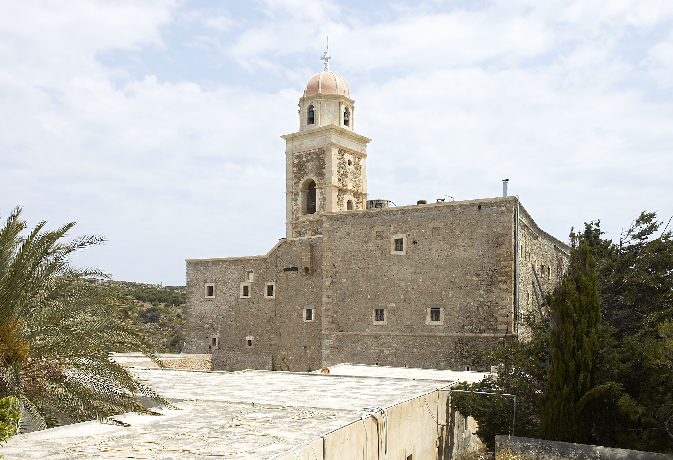 Moni Toplou